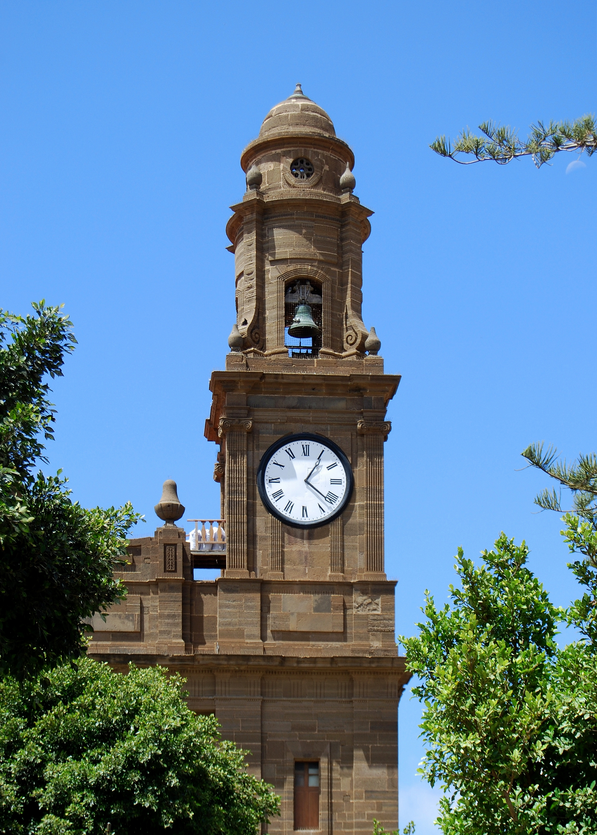 Tower of the church in Gáldar